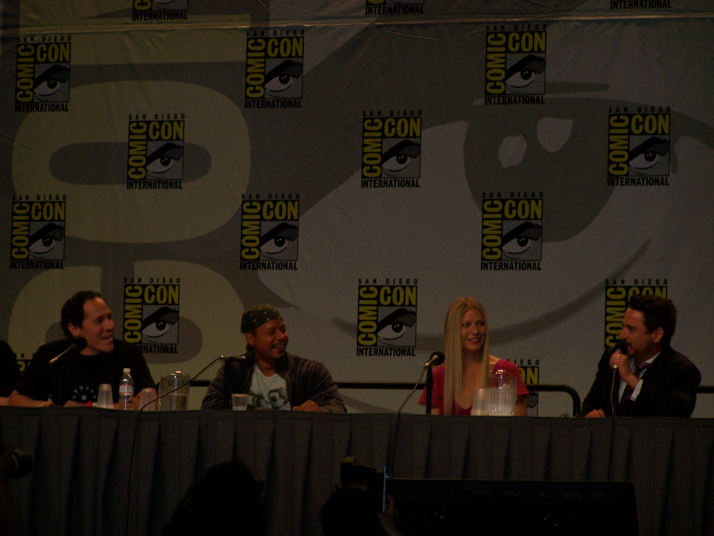 The Iron Man panel at Comic-Con 2007